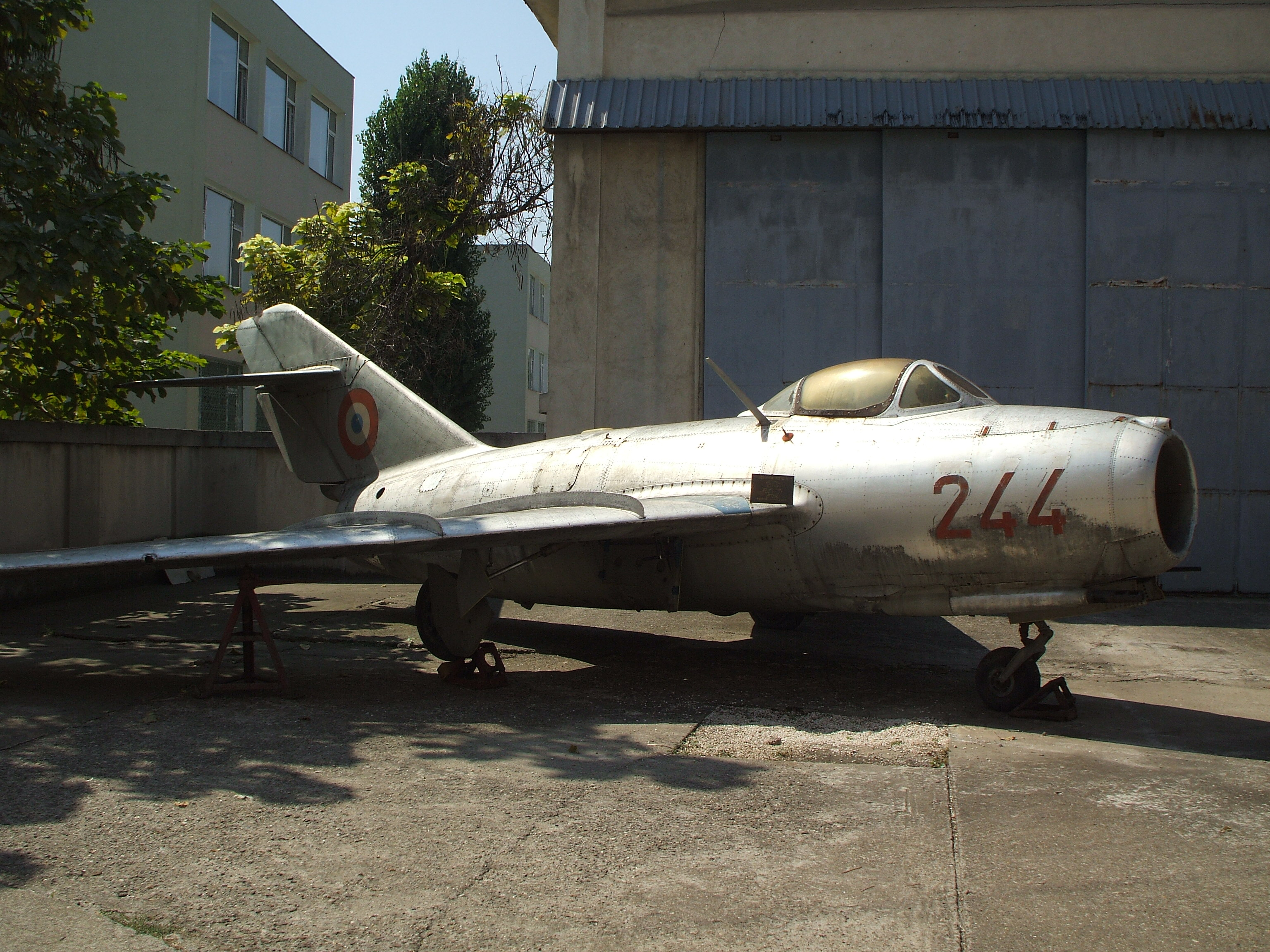 MiG-15 at National Military Museum "King Ferdinand" in Bucharest